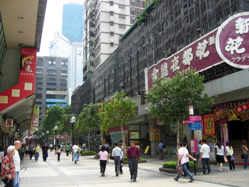 HK East Tsim Sha Tsui